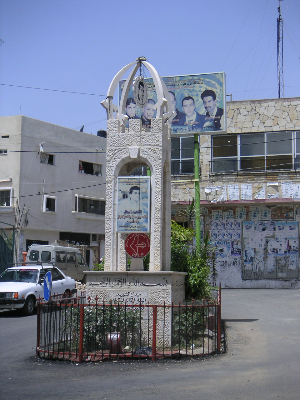 Photo: Soman